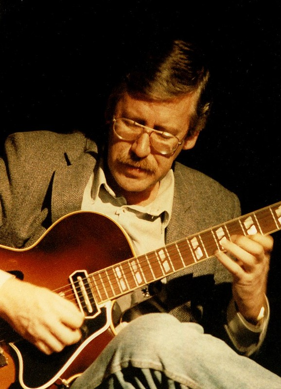 Louis Stewart, playing acostic guitar